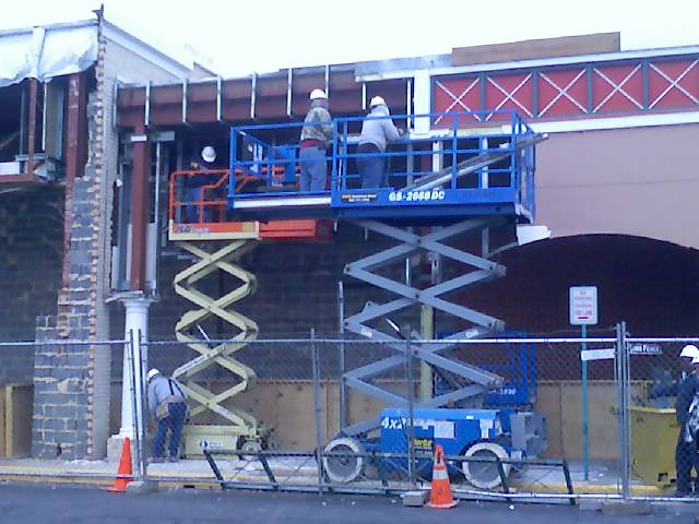 2 scissor lifts in use.